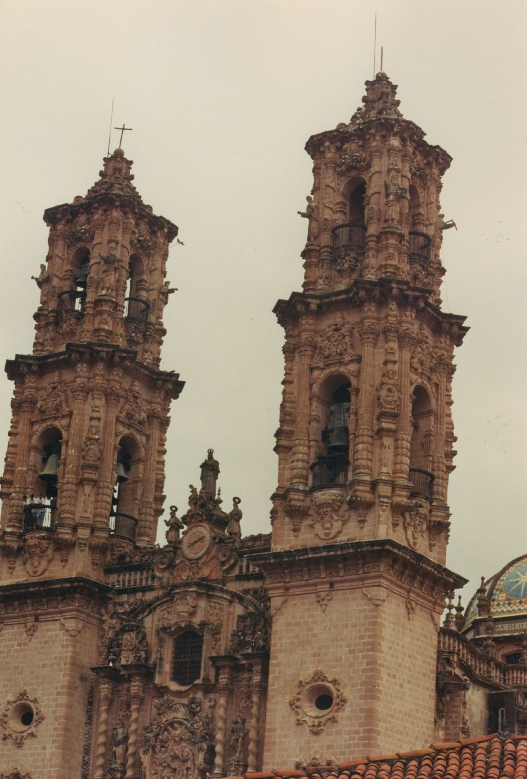 Taxco Cathedral